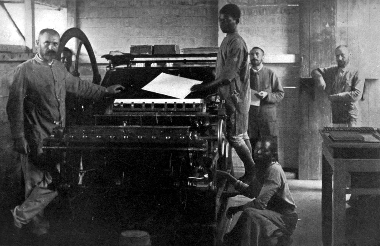 In the State Printing Office at Boma. Natives Laying-on and Taking-off - p. 238